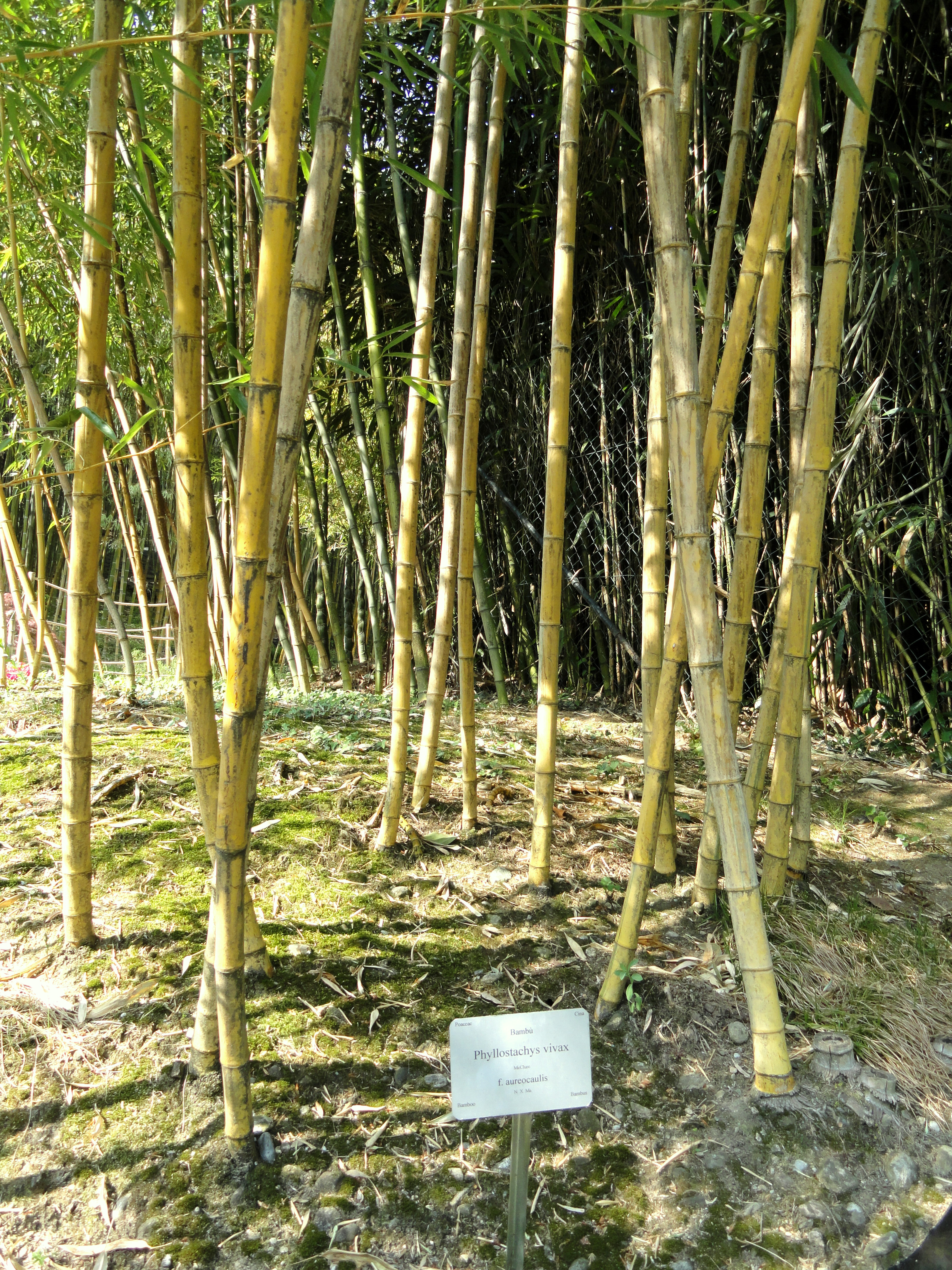 Phyllostachys vivax specimen in the Villa Carlotta (Tremezzo), on Lake Como, Italy.